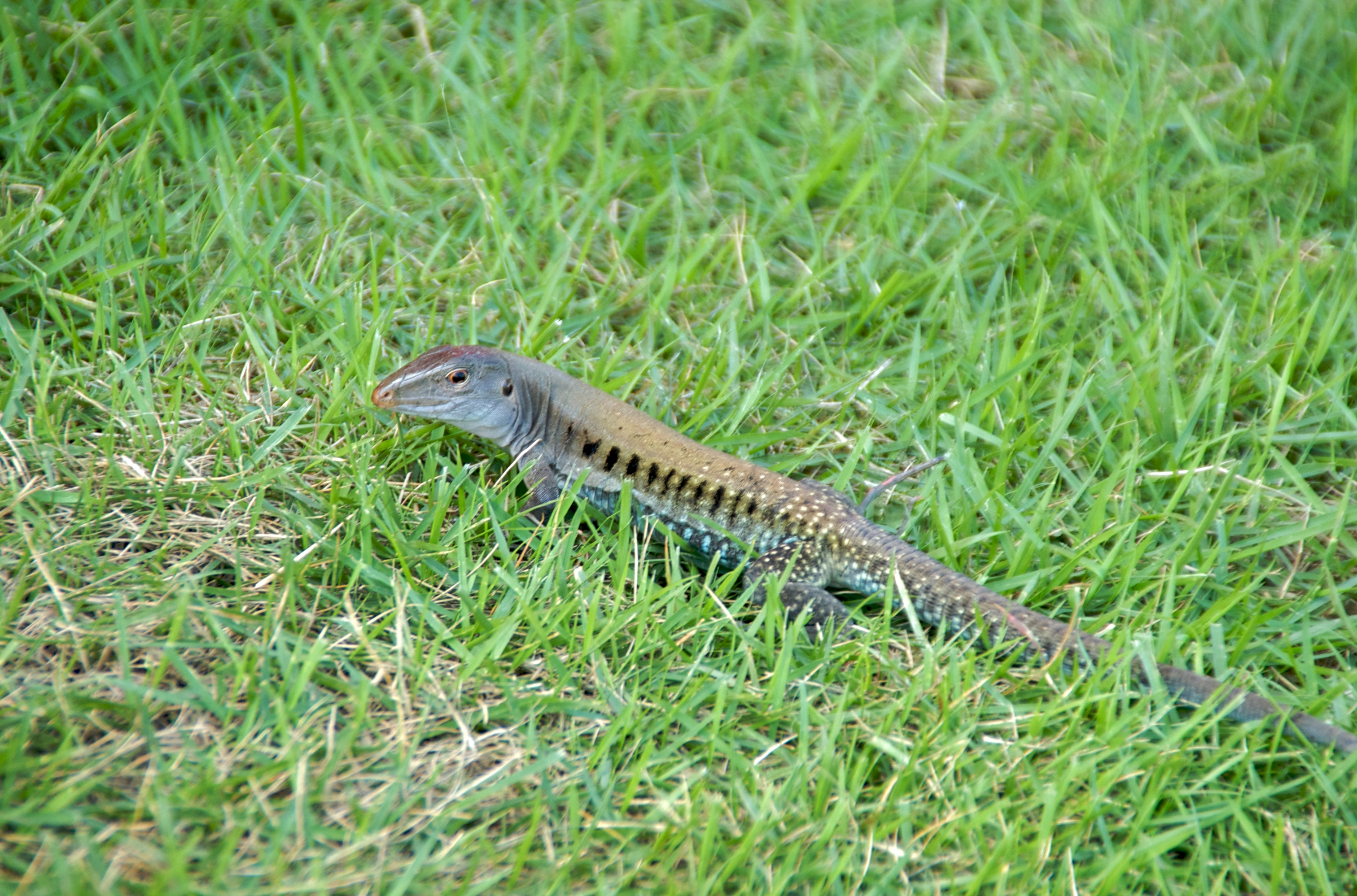 Ameiva exsul in grass